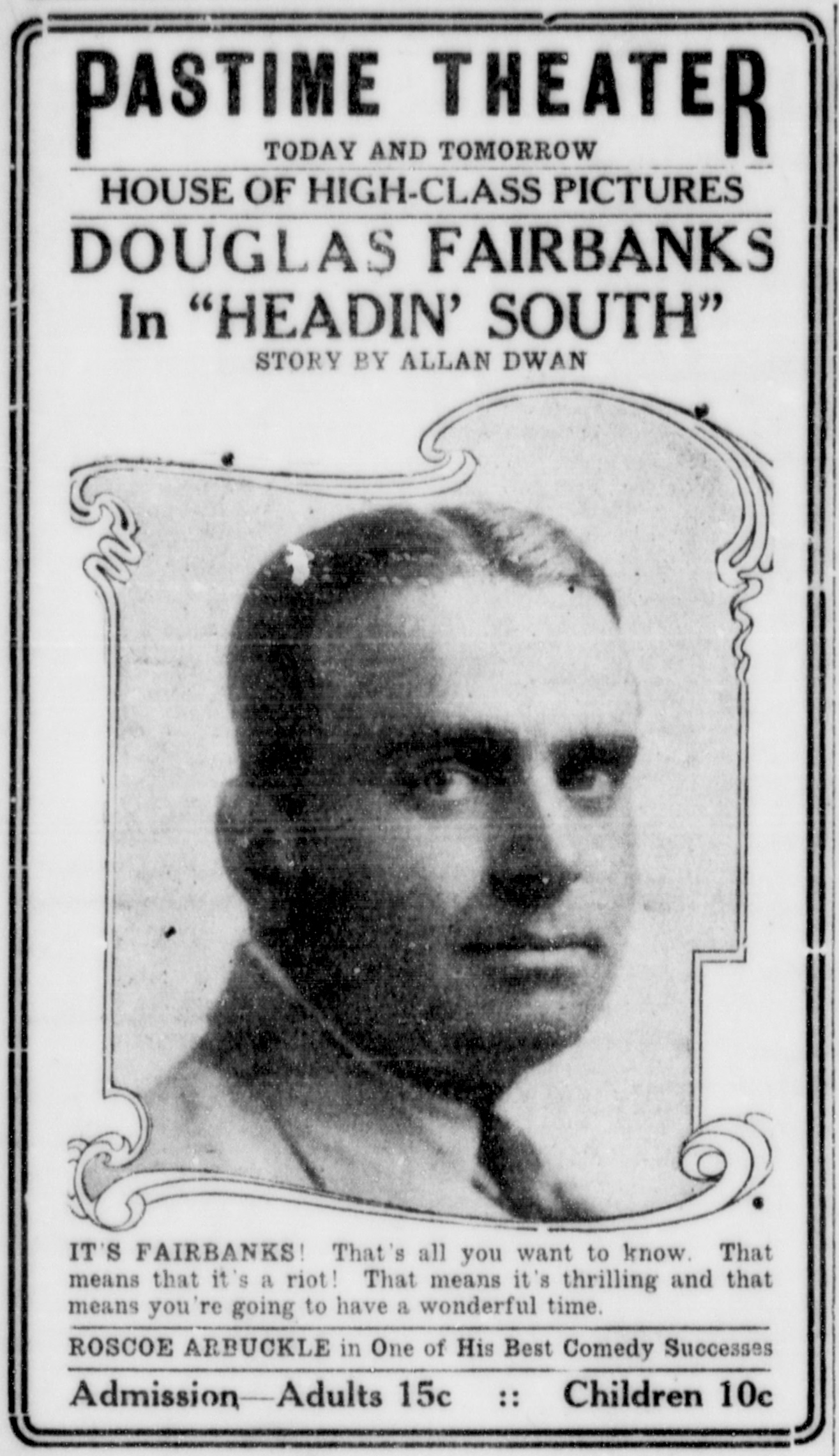 Headin' South is a 1918 American comedy film directed by Arthur Rosson with supervision from Allan Dwan and starring Douglas Fairbanks. This is a newspaper advertisement.